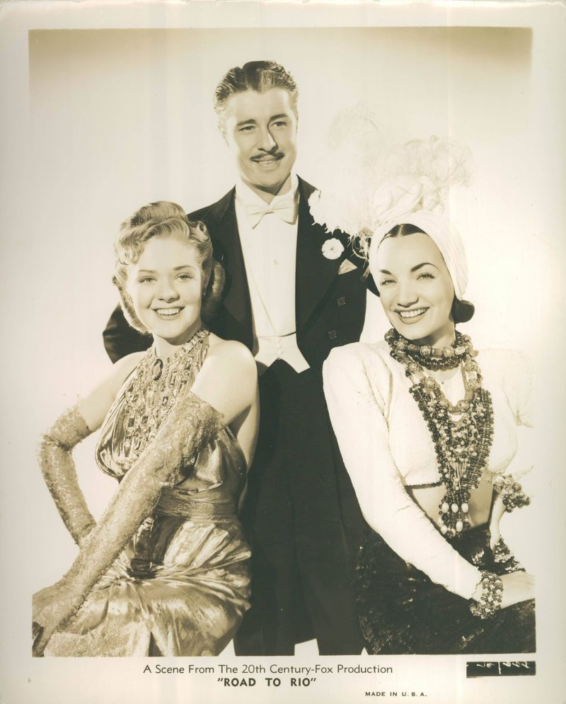 Promotional photograph from the American That Night in Rio (1941).